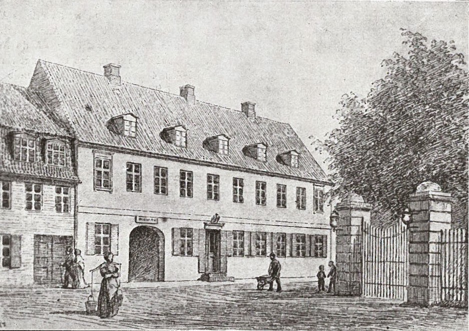 Vesterbro Apotek's first building across the street from its later building at Vesterbrogade 72 in Vesterbro, Copenhagen, Denmark.